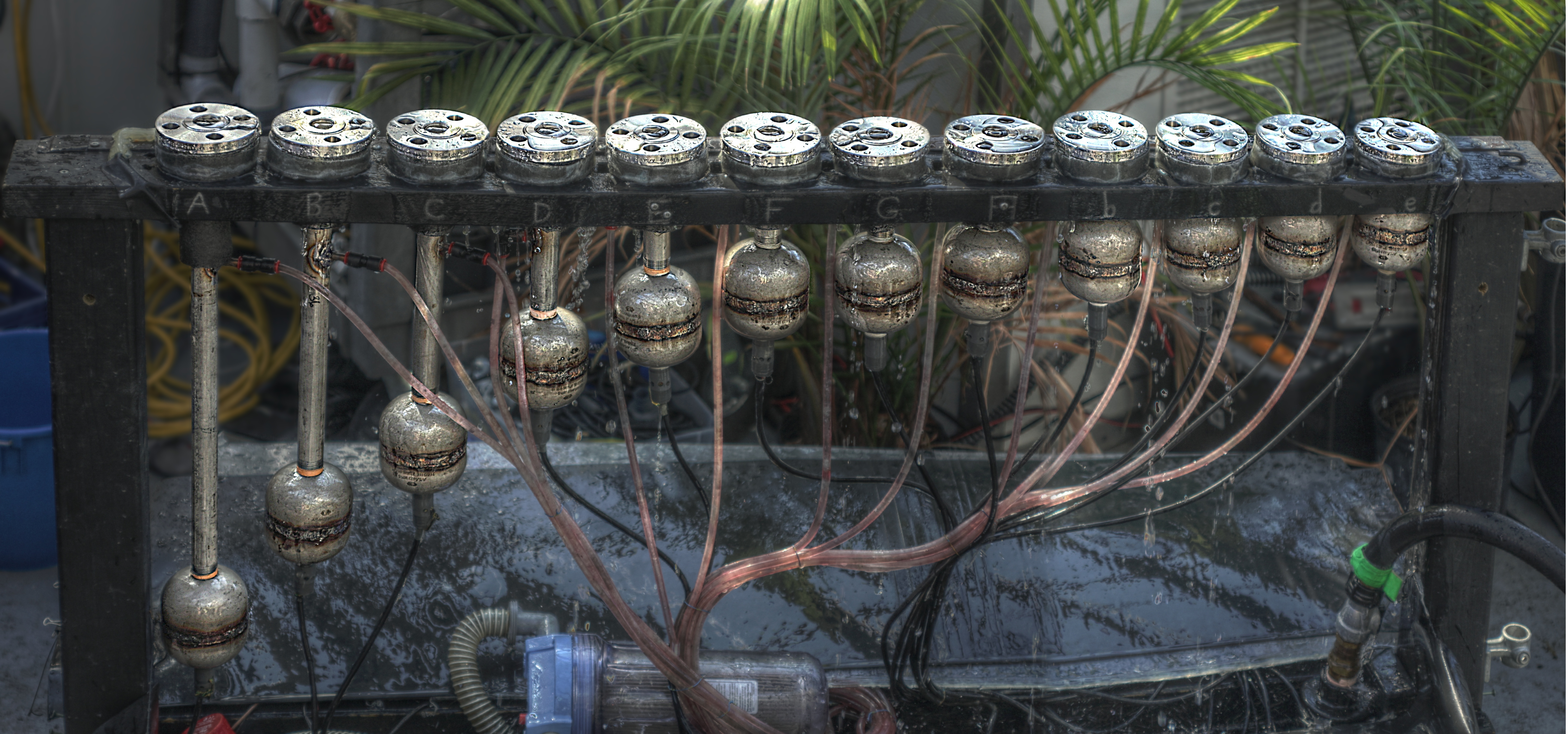 This is a picture I took of my WaterHammer hydraulophone (a working prototype of the invention), using six exposures, dark, medium, and light aimed to the left, and dark, medium, and light aimed to the right, using Canon 60D, with Nikon 55mm lens, manual focus, manual settings, camera was hand-held (no tripod).